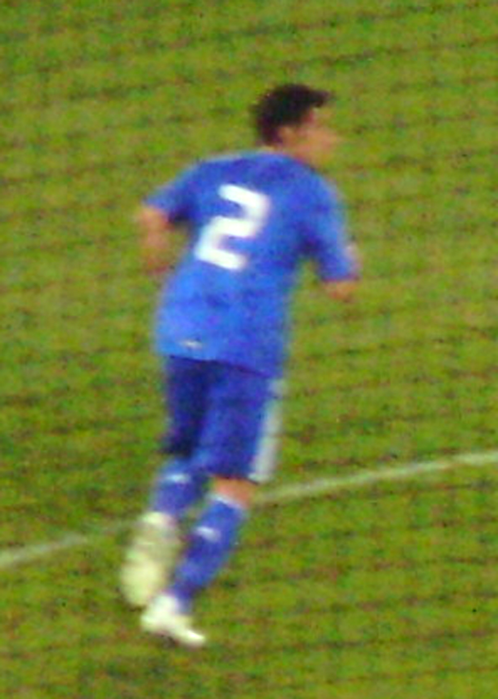 Seitaridis Giourkas Greece vs moldova